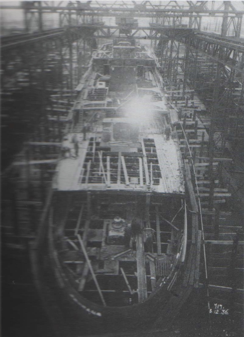 Fenella pictured under construction at Barrow-in-Furness